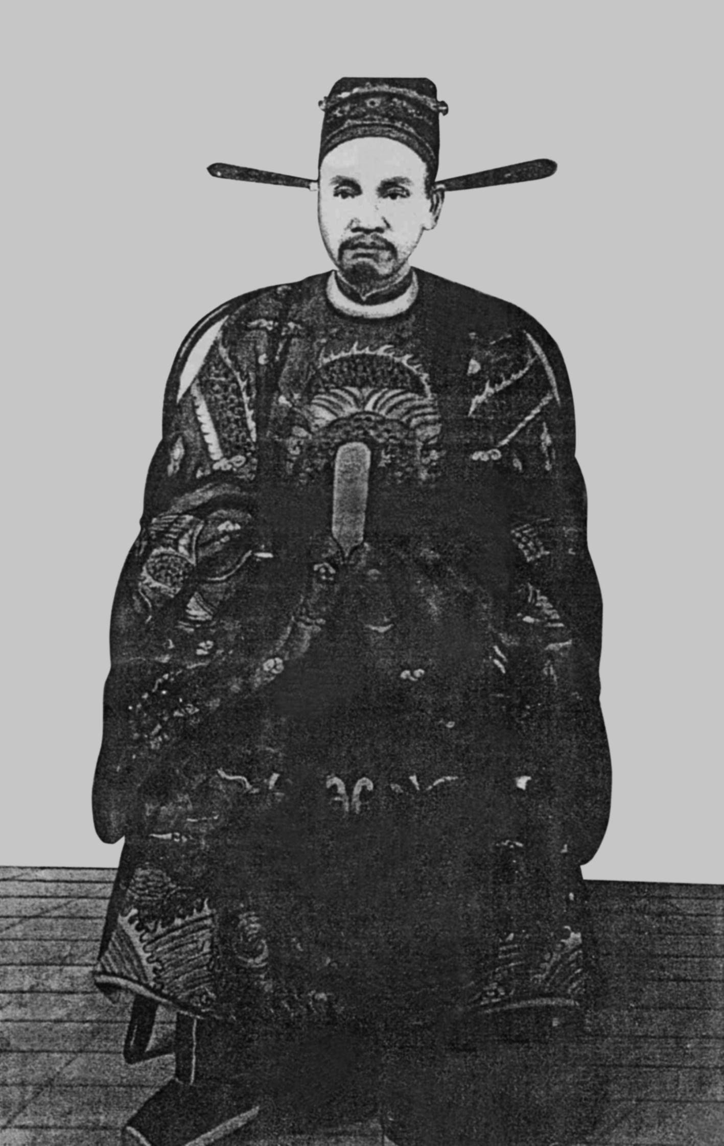 Nguyen Van Tuong (1824-1886)